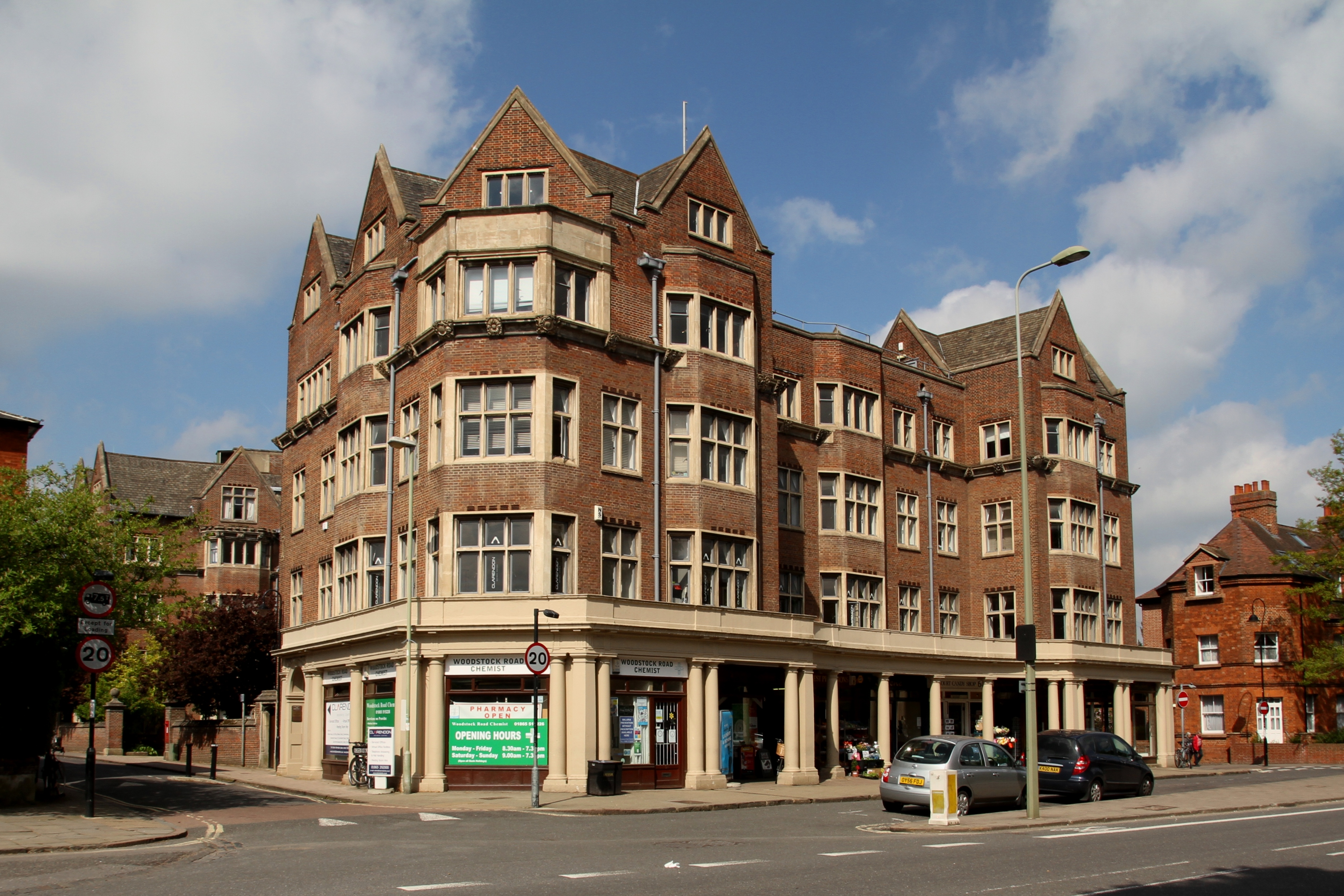 Belsyre Court, 57 Woodstock Road, Oxford, seen from the southeast